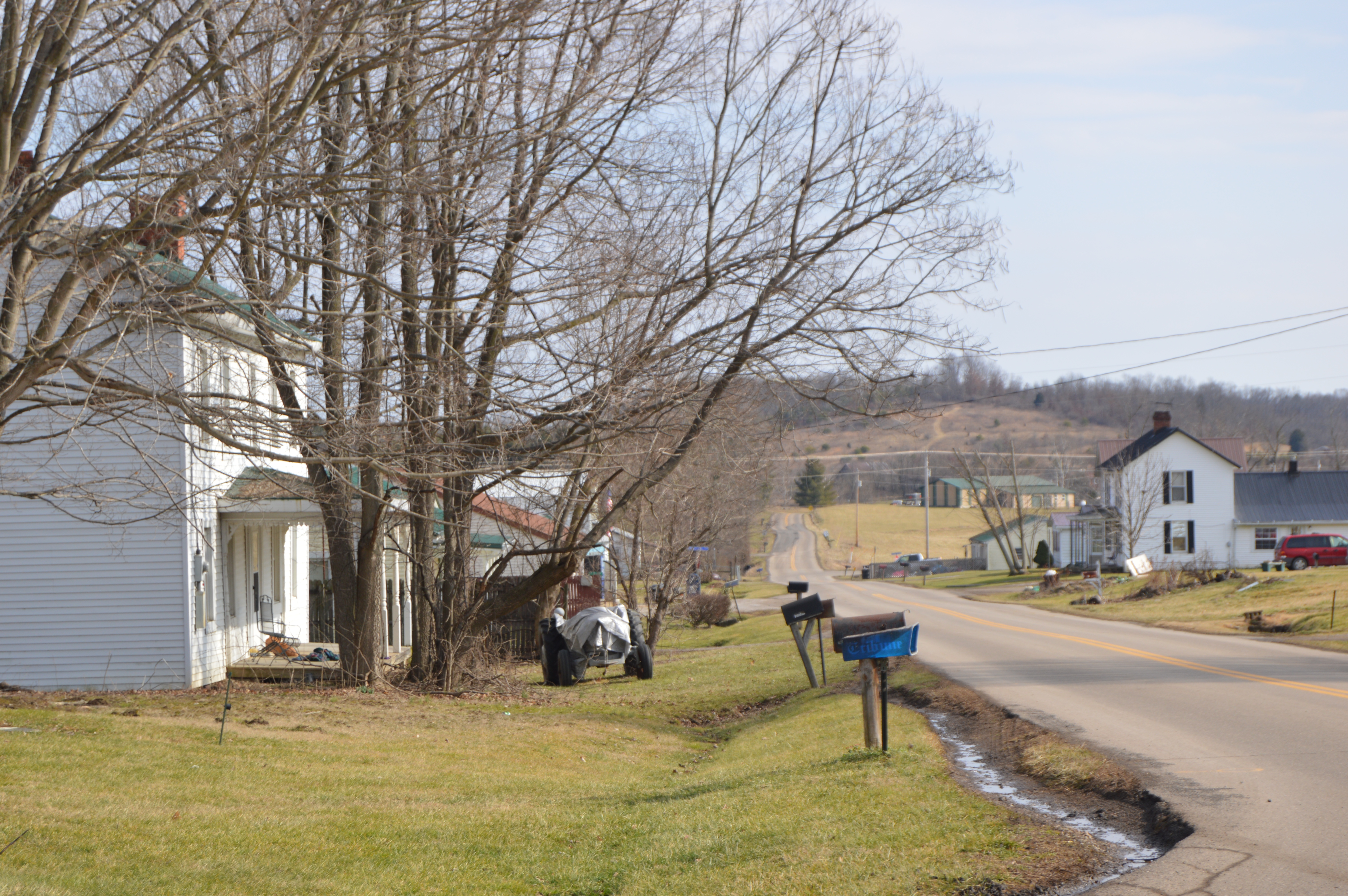 Houses on Patriot Road, seen looking east from Gage Road, in Patriot, Ohio, United States.